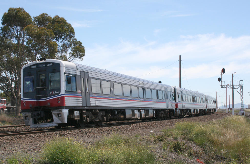 V/Line operated 'Sprinter' DMU railcar 7009 and 2 others at North Shore, Geelong, Victoria